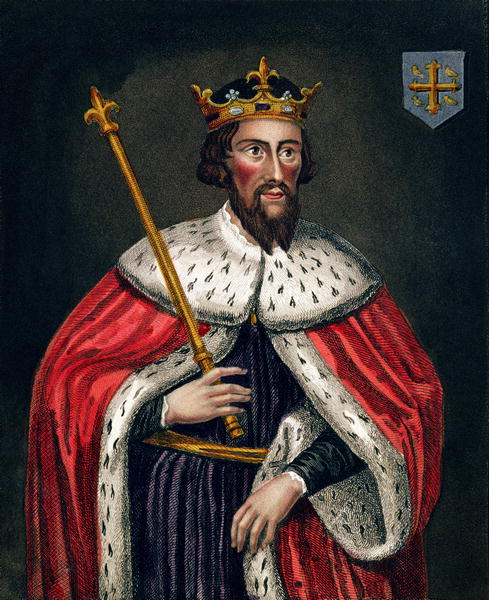 Portrait of Alfred the Great.